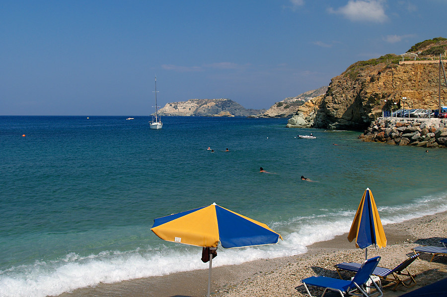 Agia Pelagia, Crete